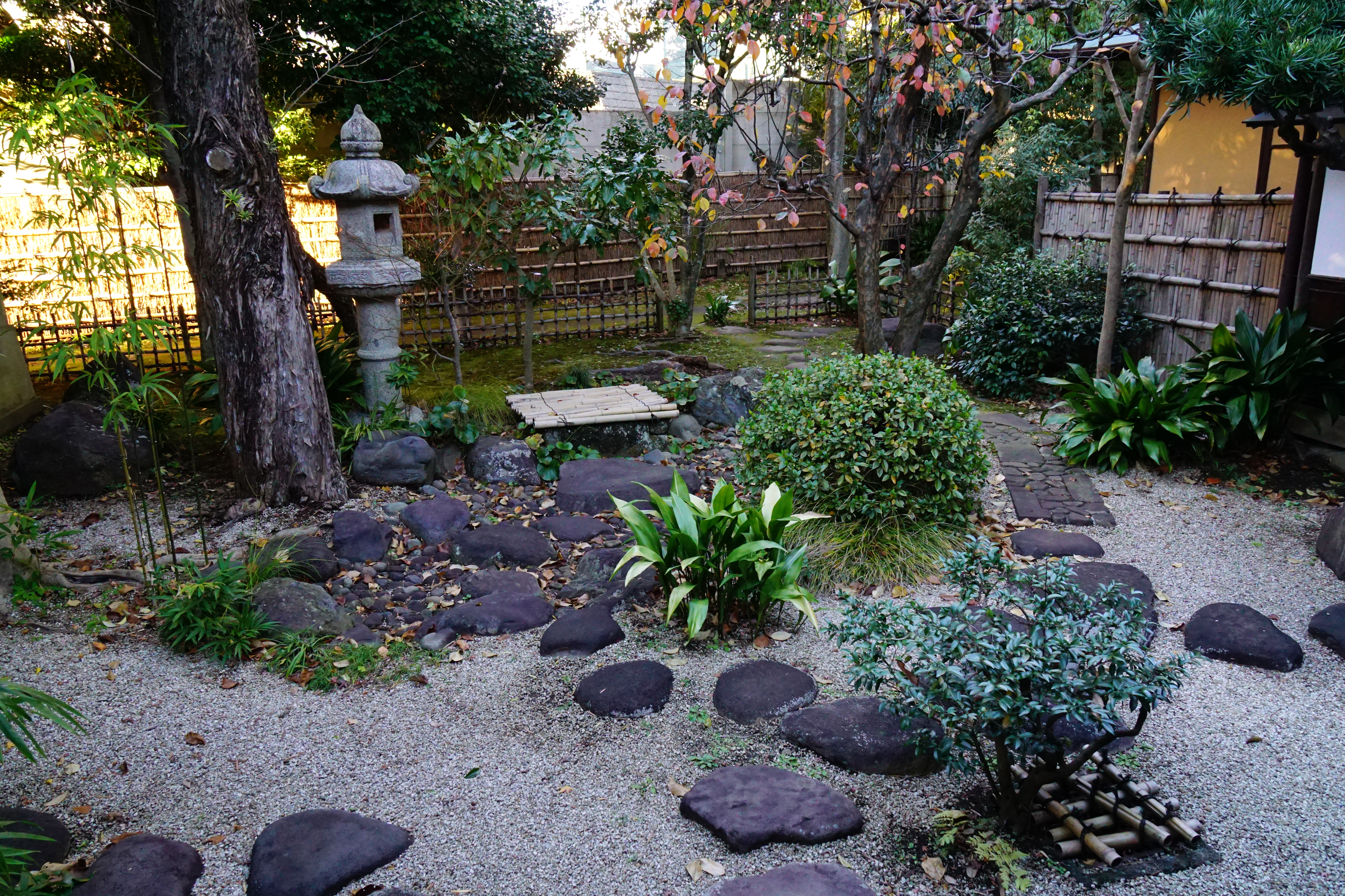 Seikan-tei in Odawara, Kanagawa prefecture, Japan